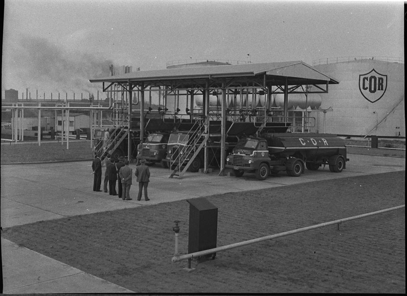 Commonwealth Oil Refineries Ltd's Port Carrington site, 13 acres reclaimed from mangrove swamps bordering Throsby Creek for oil refinery, costing 600,000 pounds